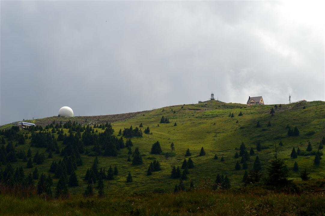 Raska Municipality - Kopaonik